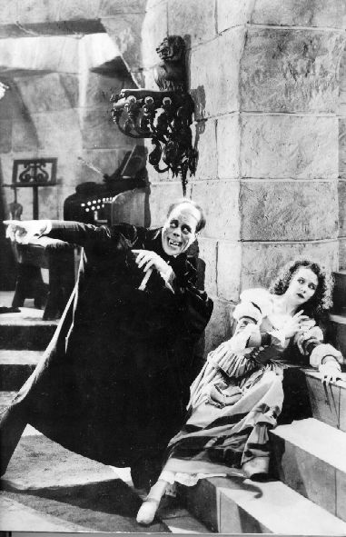 Lon Chaney Sr. and Mary Philbin in "The Phantom of the Opera" (1925) Film is listed as public domain. [1]